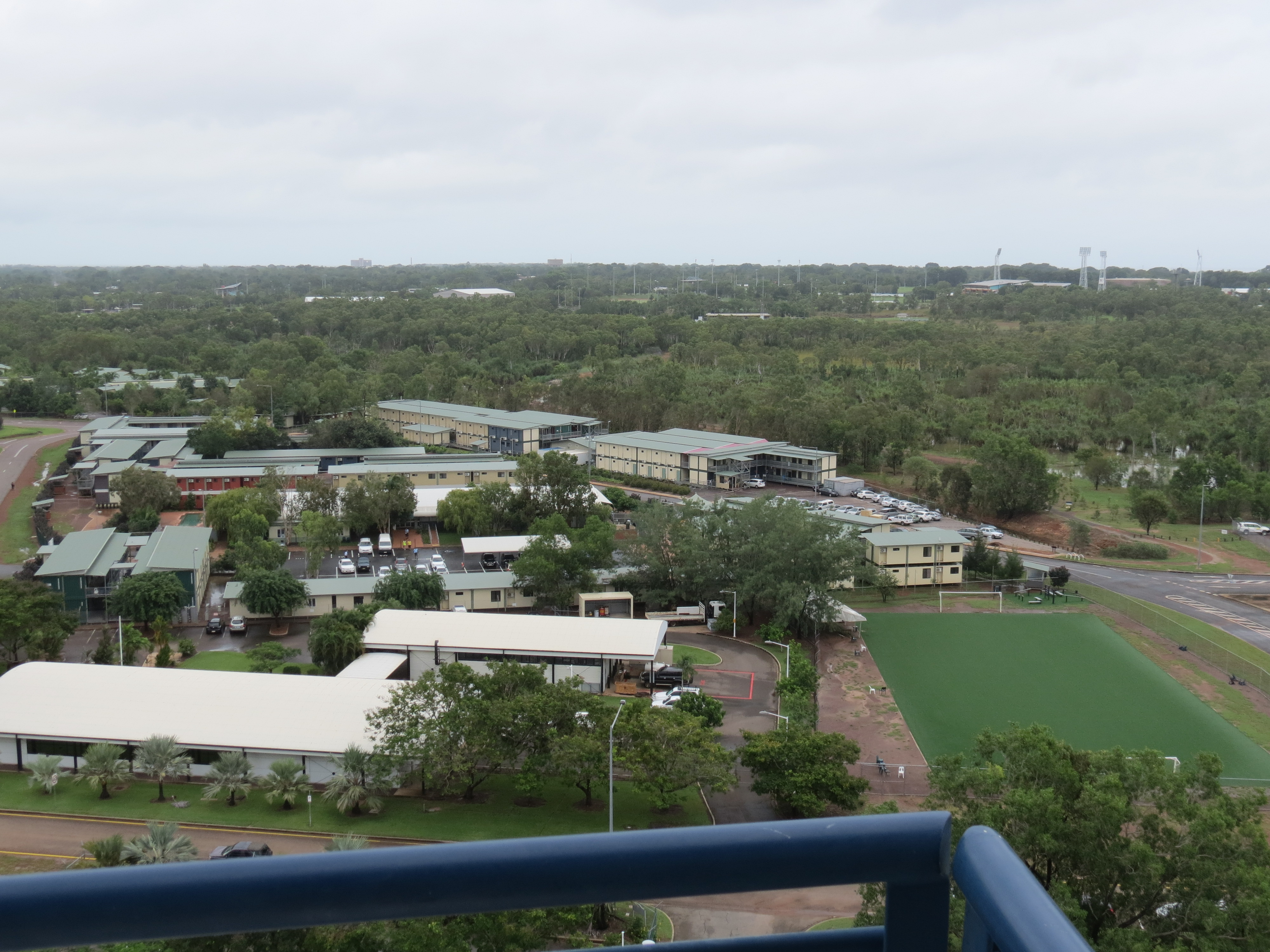 The buildings in the right centre and the soccer pitch are the Darwin Airport Immigration Detention Centre.